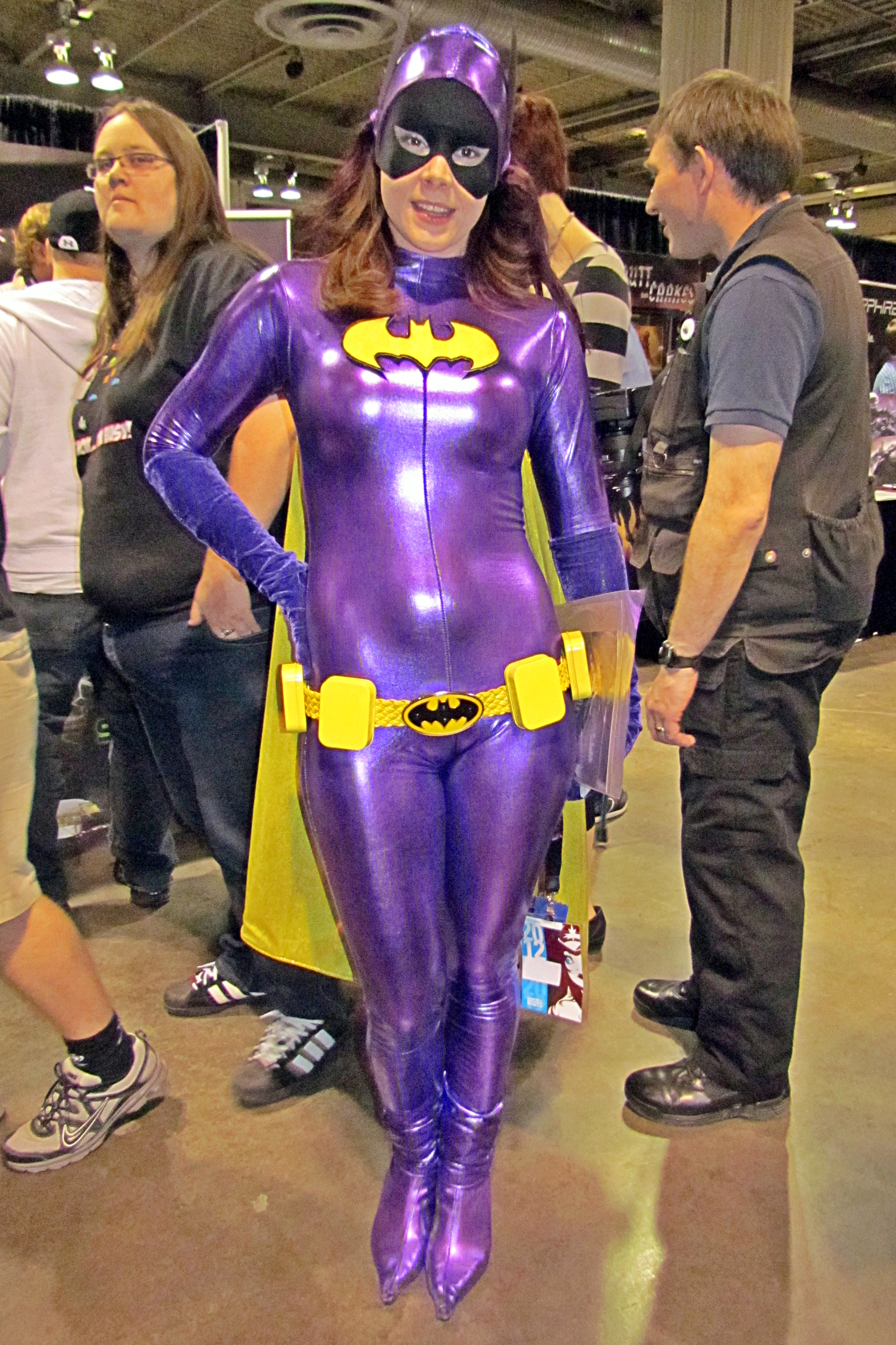 Batgirl is the name of several fictional characters appearing in comic books published by DC Comics, depicted as female counterparts to the superhero Batman. Although the character Betty Kane was introduced into publication in 1961 by Bill Finger and Sheldon Moldoff as Bat-Girl, she is replaced by Barbara Gordon in 1967, who later came to be identified as the first Batgirl. Photo taken at the Calgary Comic and Entertainment Expo, BMO Centre, Calgary, Alberta, Canada.